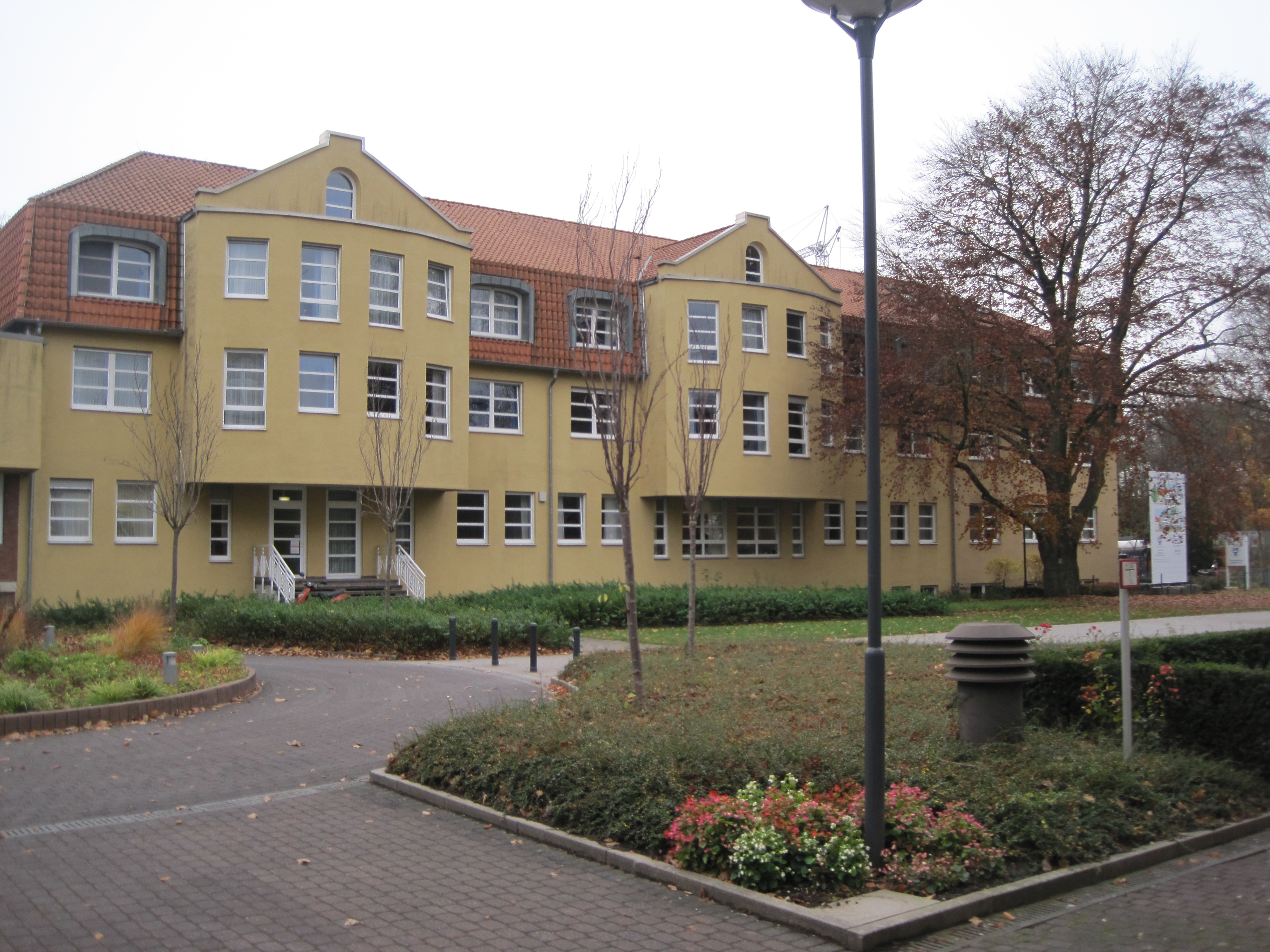 Clinic for manual therapy. The clinic was build in 1959 after the destruction of the of decrepit spa. The main building from parkside view.